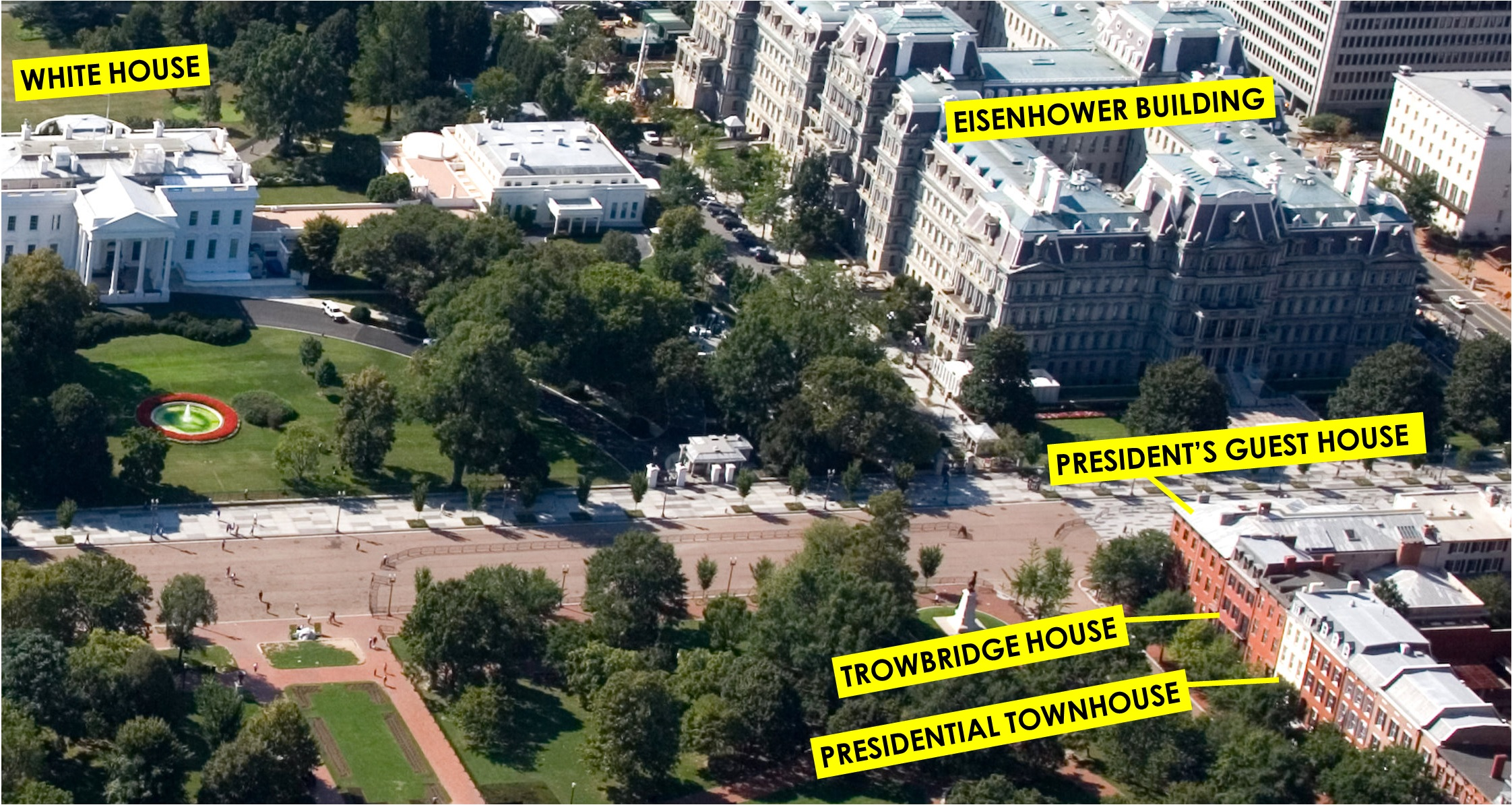 Diagram showing the President's Guest House in relation to the White House and the Eisenhower Building in Washington, D.C.